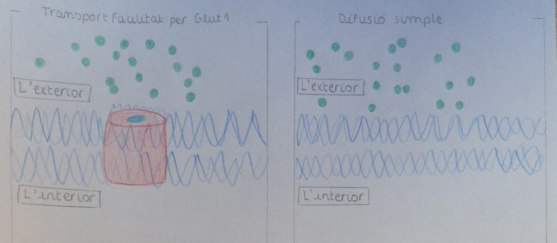 dihdi